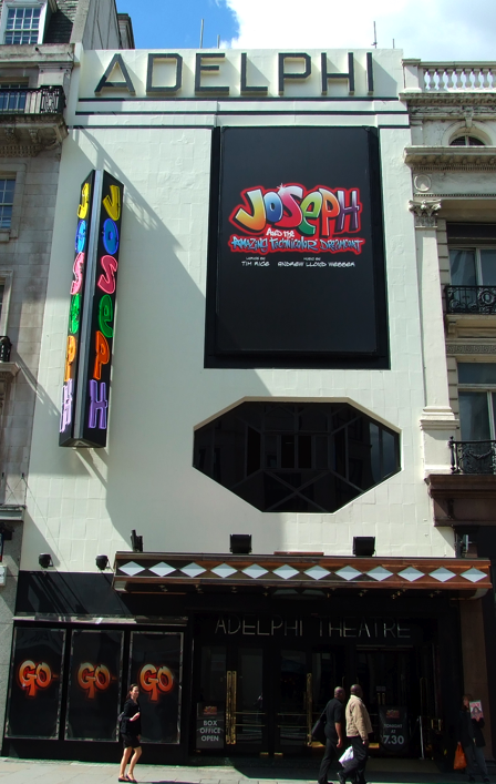 A photo of The Adelphi Theatre, London taken by myself.